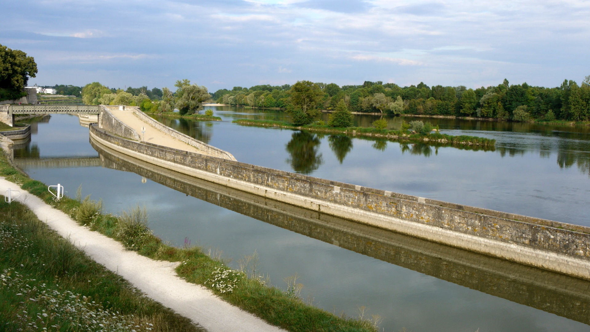 Modern part of the canal d'Orléans all along the Loire in Saint Jean de Braye, France